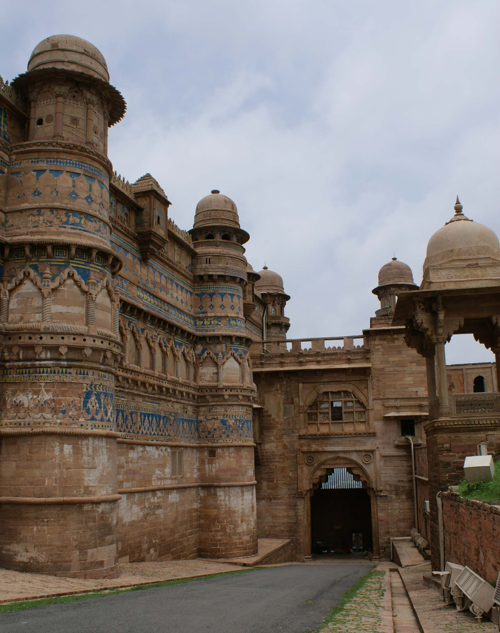 Gwalior, Elephant door